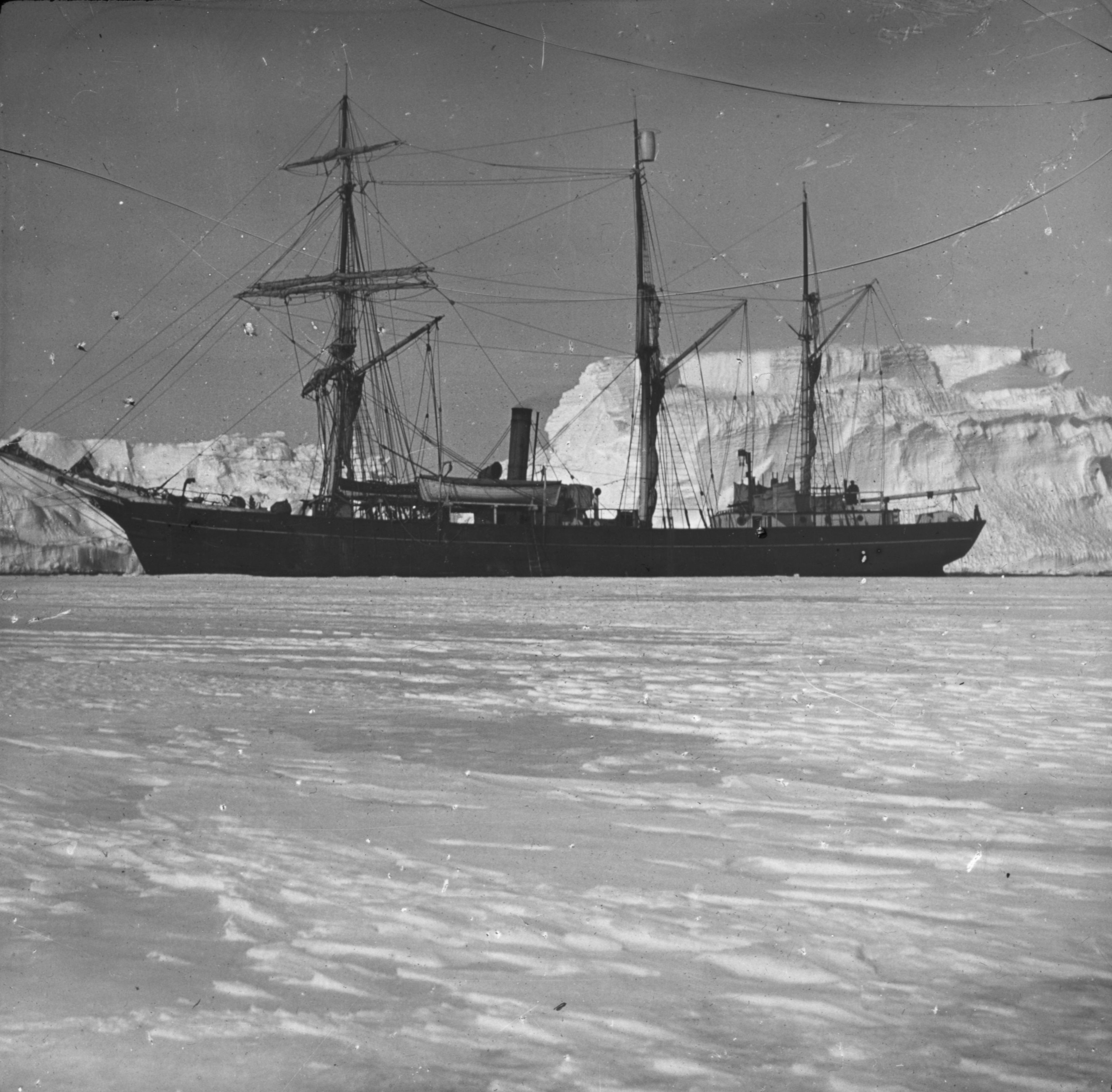 Photographs of the Nimrod Expedition (1907-09) to the Antarctic, led by Ernest Sheckleton